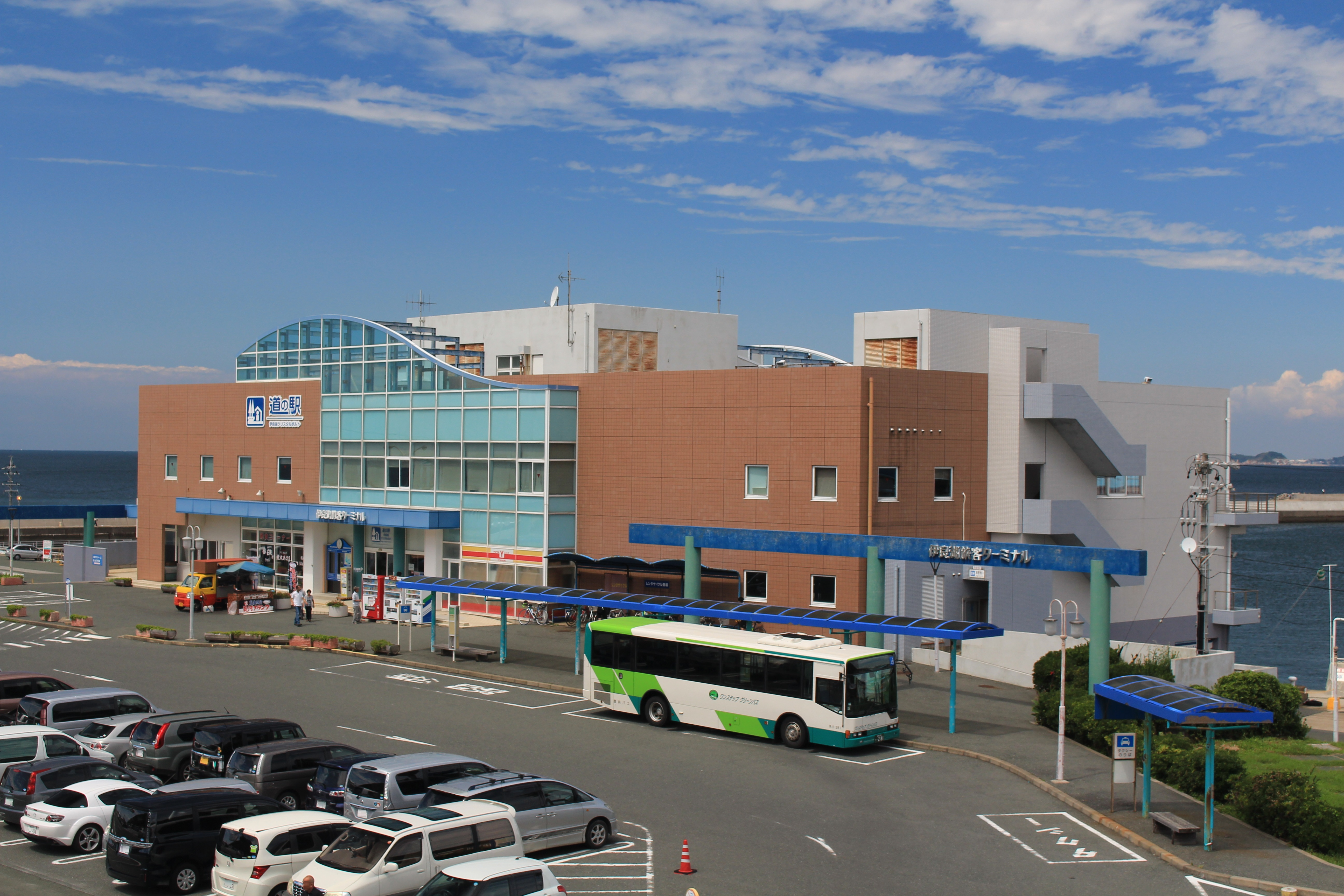 Michinoeki Irago Crystal Port in Tahara City, Aichi Prefecture, Japan